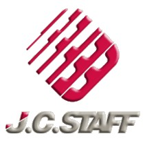 J.C.Staff's Logo